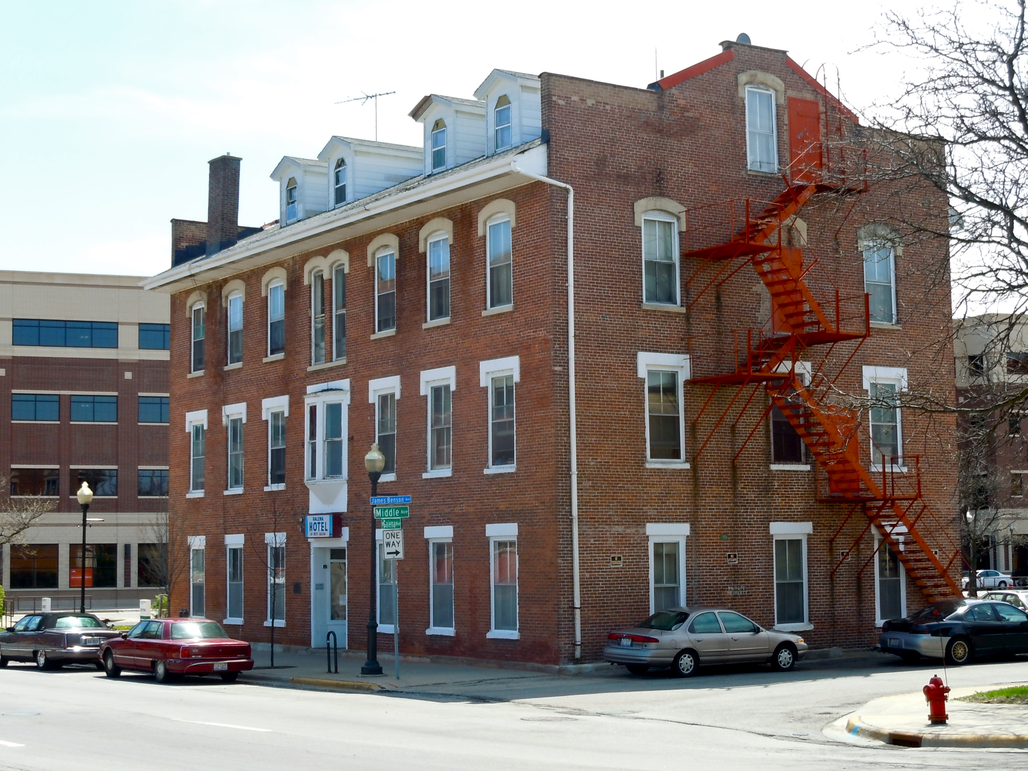 Fox River House aka the Galena Hotel on the NRHP since May 4, 1976. At 166 W. Galena Street, Aurora, Kane County, Illinois.